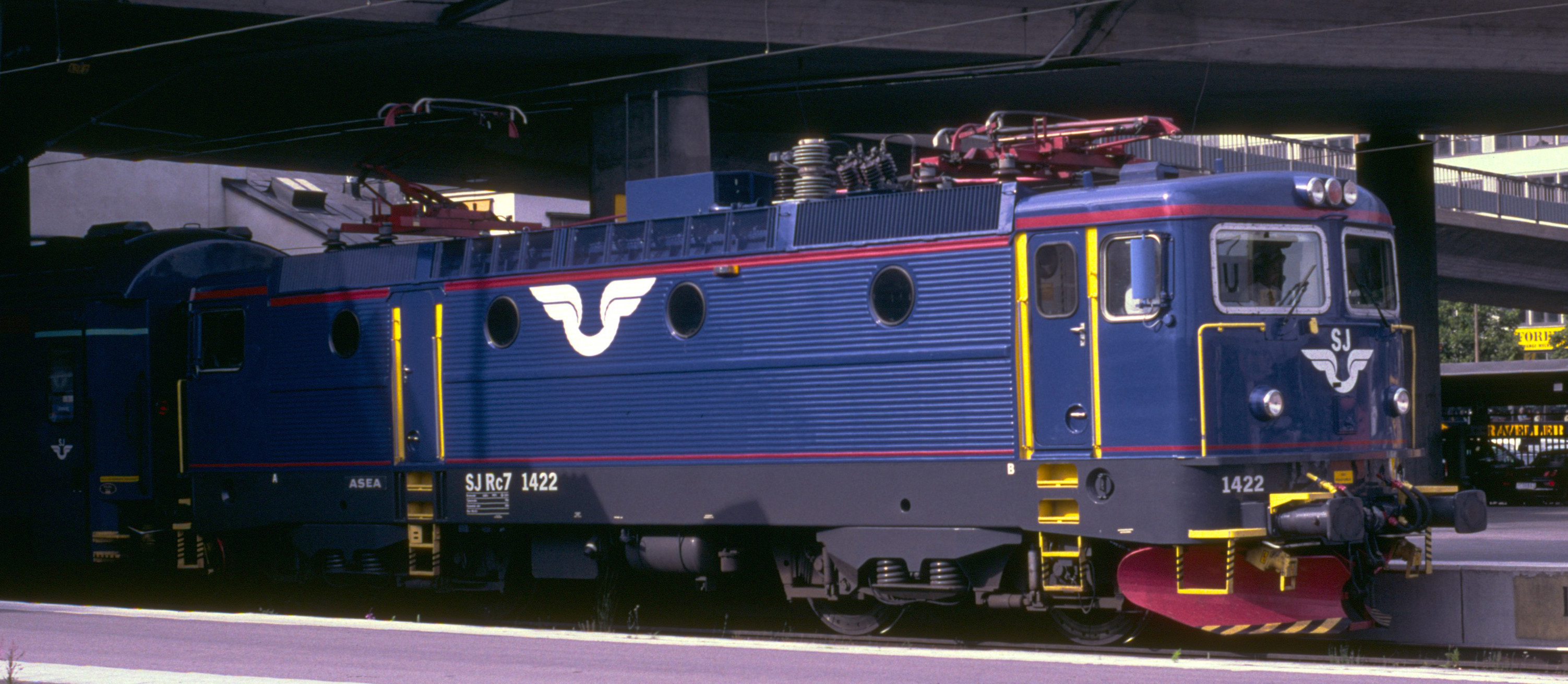 Rc7 1422, Stockholm C, 2002. Numera är loket svartmålat enligt SJ AB:s nya färgprofil för loktåg